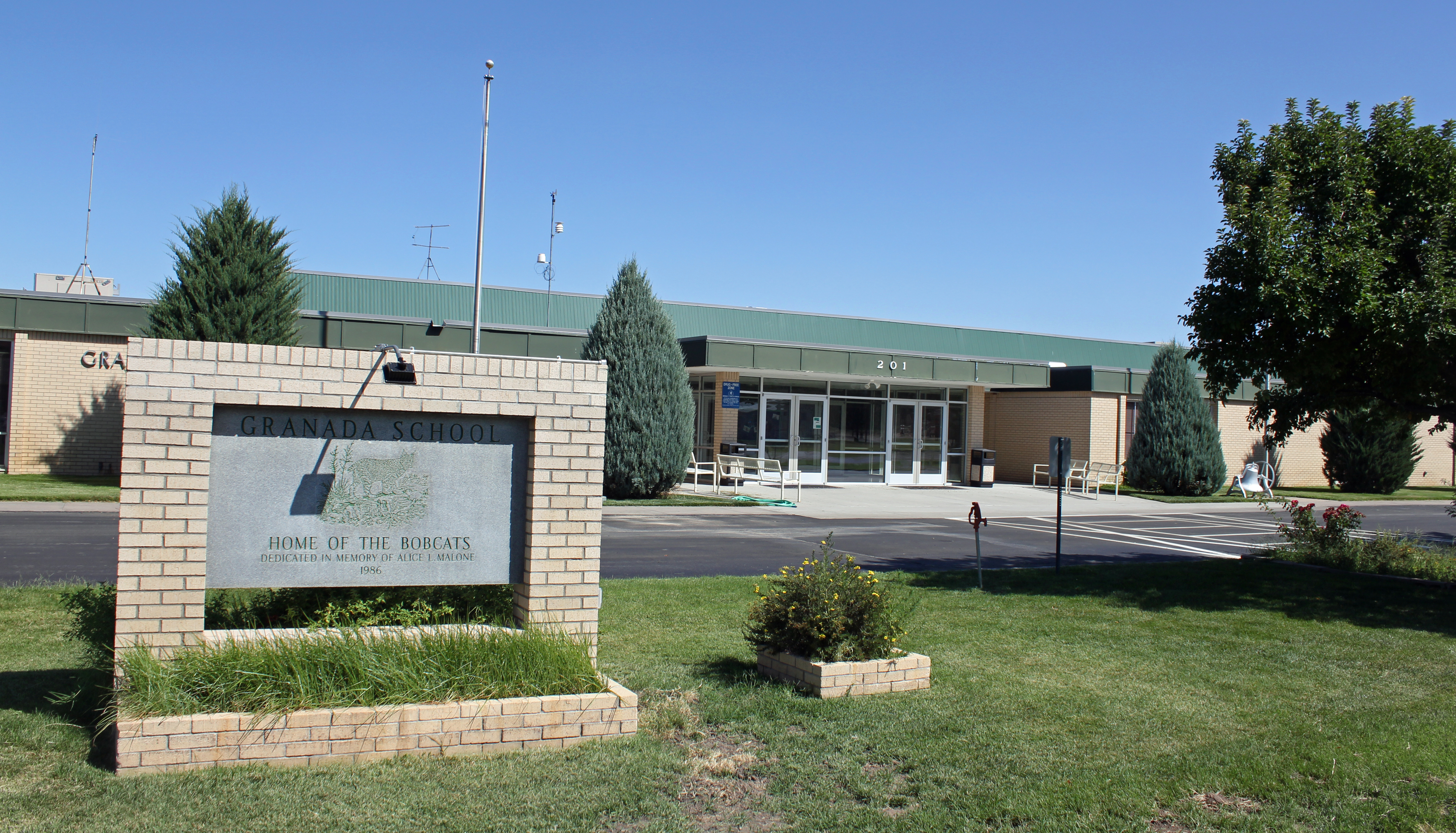 The Granada Undivided High School, located at 201 South Hoisington Street in Granada, Colorado.